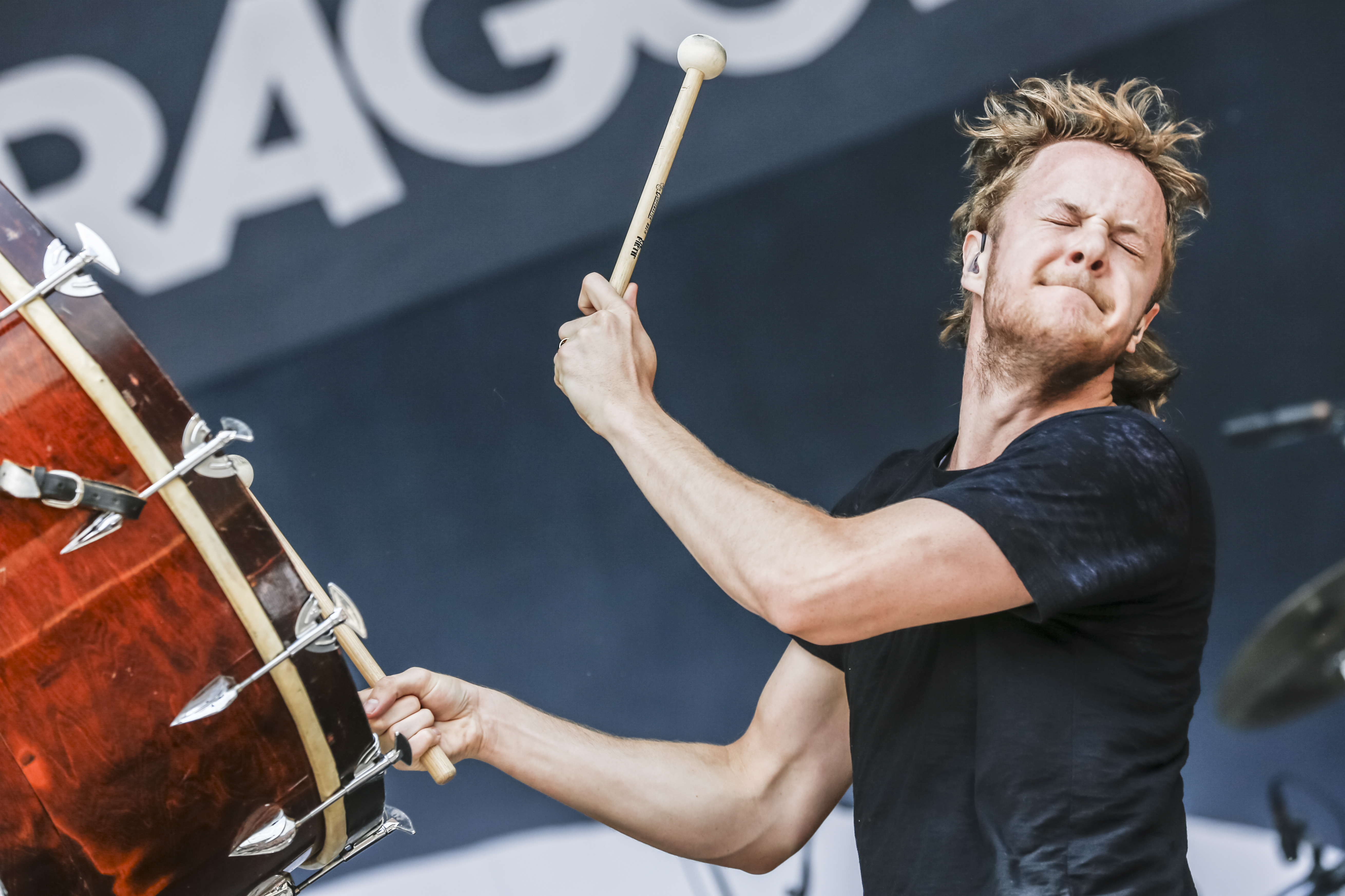 Dan Reynolds of Imagine Dragons at Rock im Park 2013 in Nuremberg, Germany